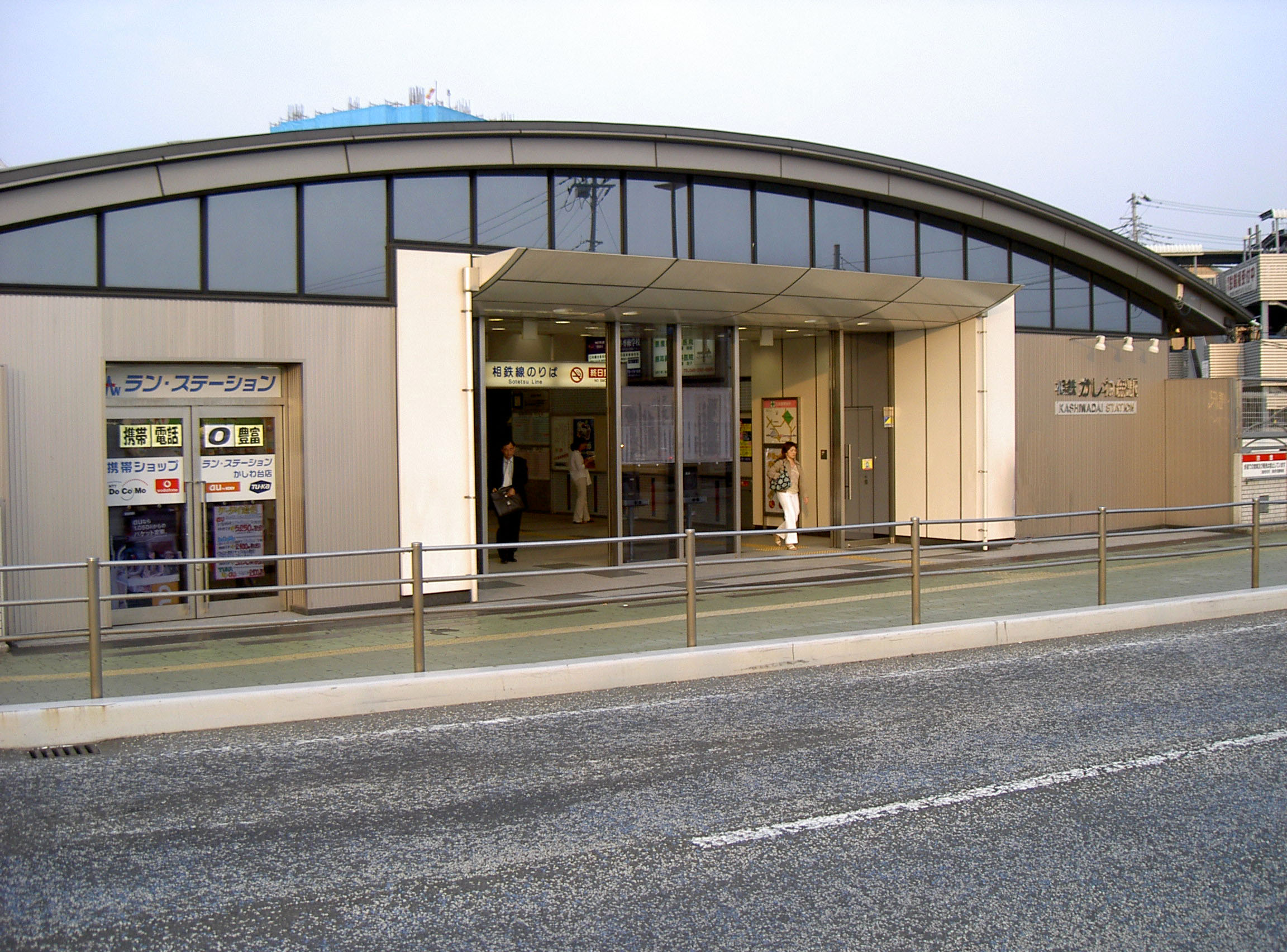 West entrance of Kashiwadai station, Soutetsu line ja: かしわ台駅西口